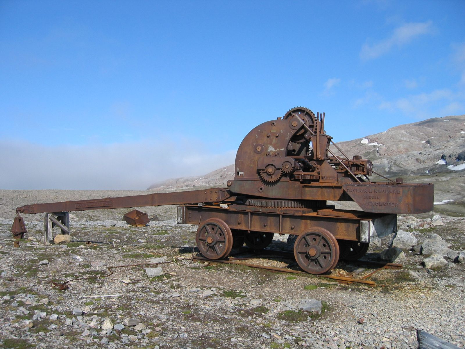 British-made mining gear abandoned in the high arctic.